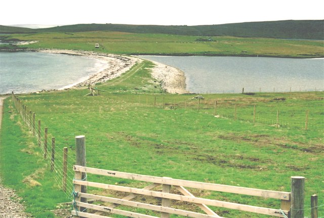 Galtagarth